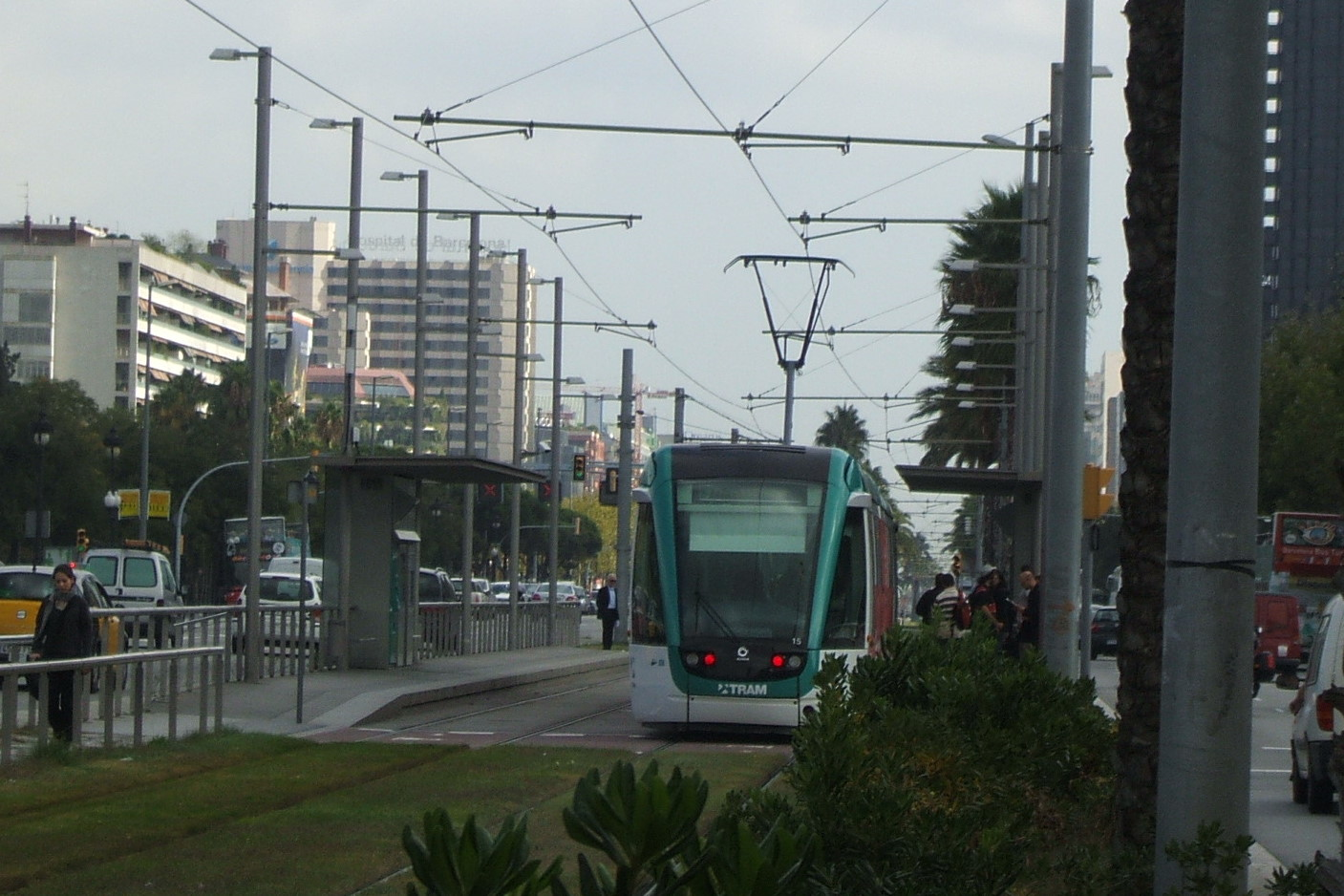 Pius XII Trambaix stop